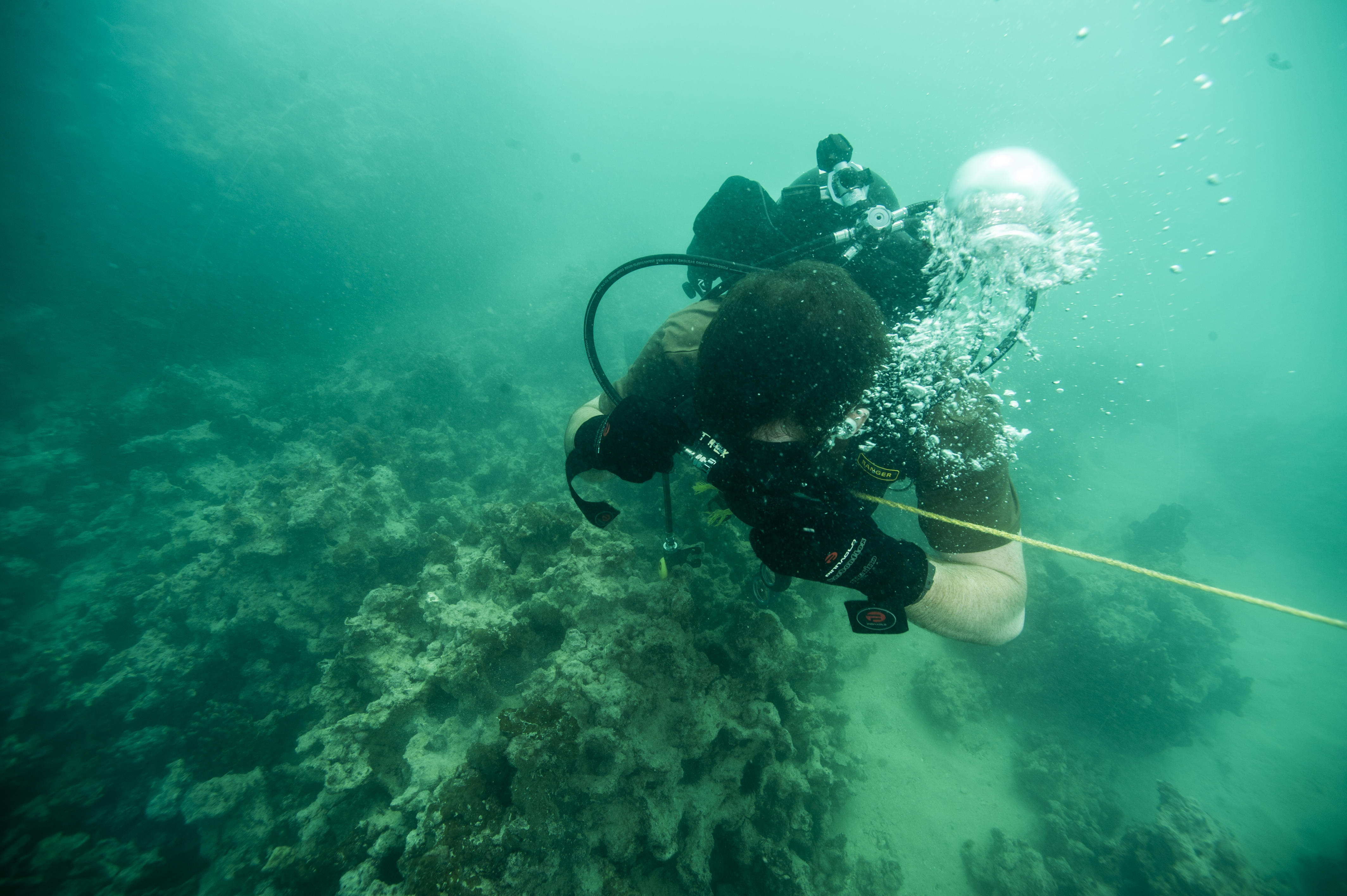 ARABIAN GULF (Nov. 9, 2014) An explosive ordnance disposal technician with Commander, Task Group 56.1 conducts a scuba dive off the coast of Bahrain during the International Mine Countermeasures Exercise (IMCMEX). With a quarter of the world’s navies participating, including 6,500 Sailors from every region, IMCMEX is the largest international naval exercise promoting maritime security and the free-flow of trade through mine countermeasure operations, maritime security operations and maritime infrastructure protection in the U.S. 5th Fleet area of responsibility and throughout the world. (U.S. Navy photo by Mass Communication Specialist 2nd Class Michael Scichilone/Released)